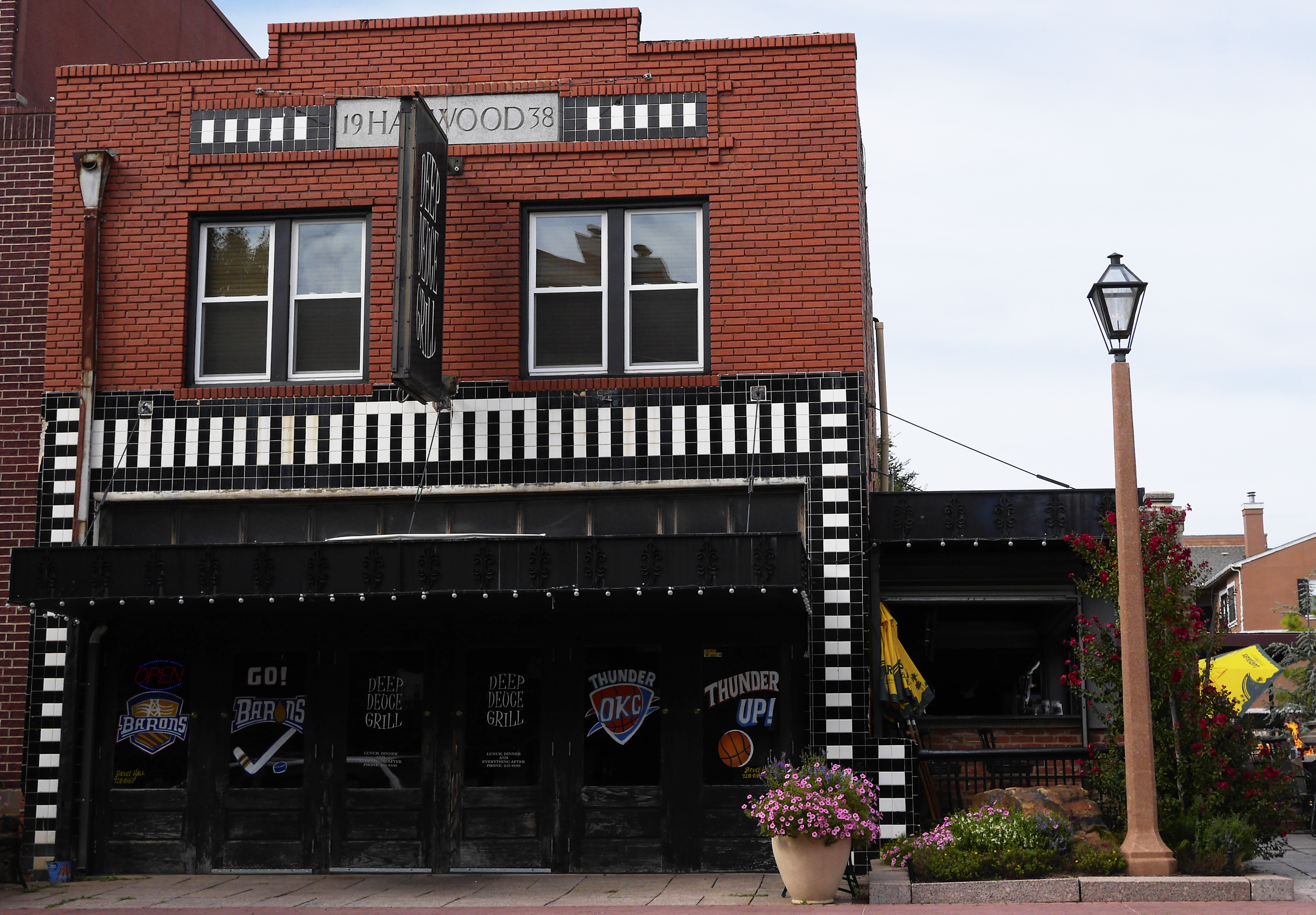 Haywood Building, 307 NE. 2nd Oklahoma City This building now houses Deep Deuce Grill.